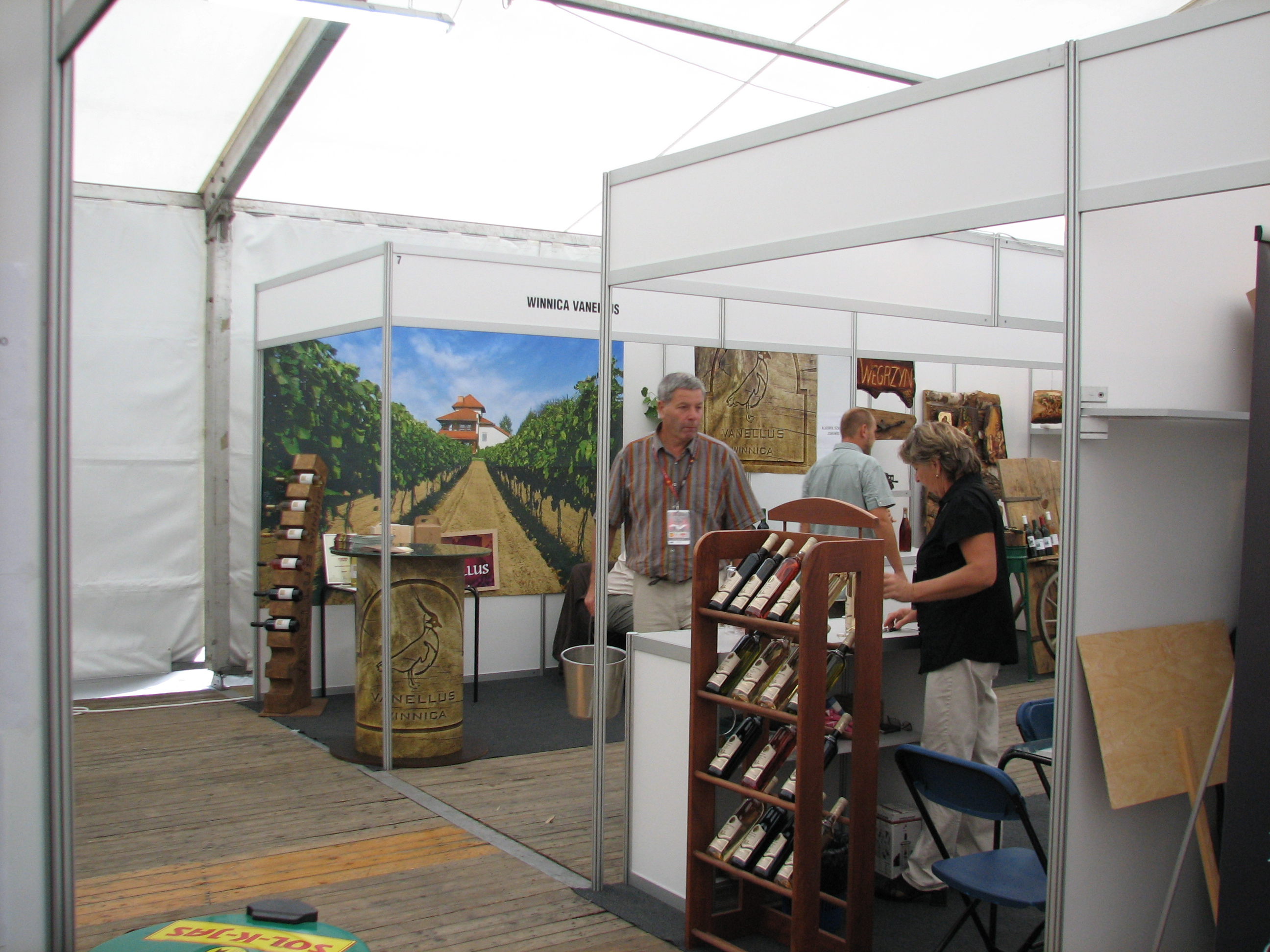 V Days of Wine in Jasło